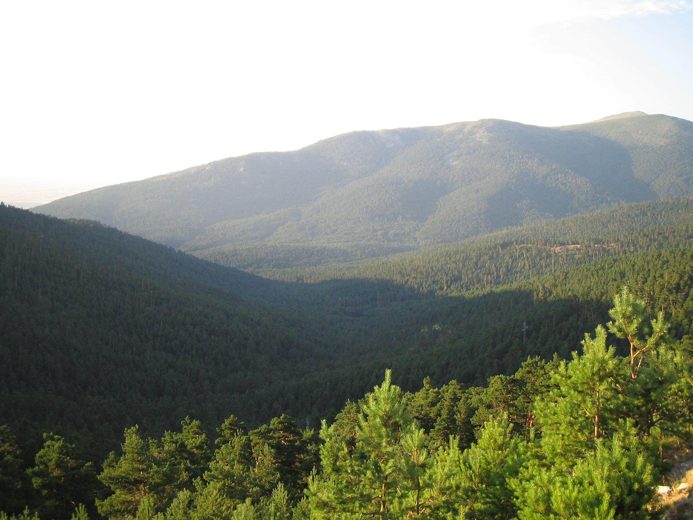 Valle de Valsaín in the province of Segovia